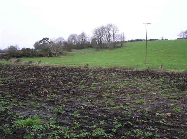 Groggan Townland Looking north to Kilknock